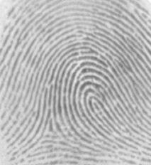 Gray noise dactylography image